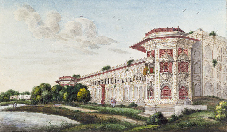 A corner of the Qadsiyah Palace in Delhi is shown on the bank of the River Jumna. From Sixty drawings of Mughal monuments and architectural details. The drawings are recorded as being by 'native' droughtsmen of the Delhi School in the Office of the Honourable East India Company's Superintendent of Public Buildings and Ancient Monuments at Calcutta, ca.1836. These set of drawings are of Mughal monuments in the Delhi area in a landscape setting. They are almost identical to a set collected in Delhi by Sir Thomas Metcalfe, ca.1840, some of which were by Mazar Ali Khan and published in Kaye, 1980. Materials and Techniques:Watercolour on paper. Credit Line:Given by E. H. Hindley. Victoria and Albert Museum number:IM.22-1923.